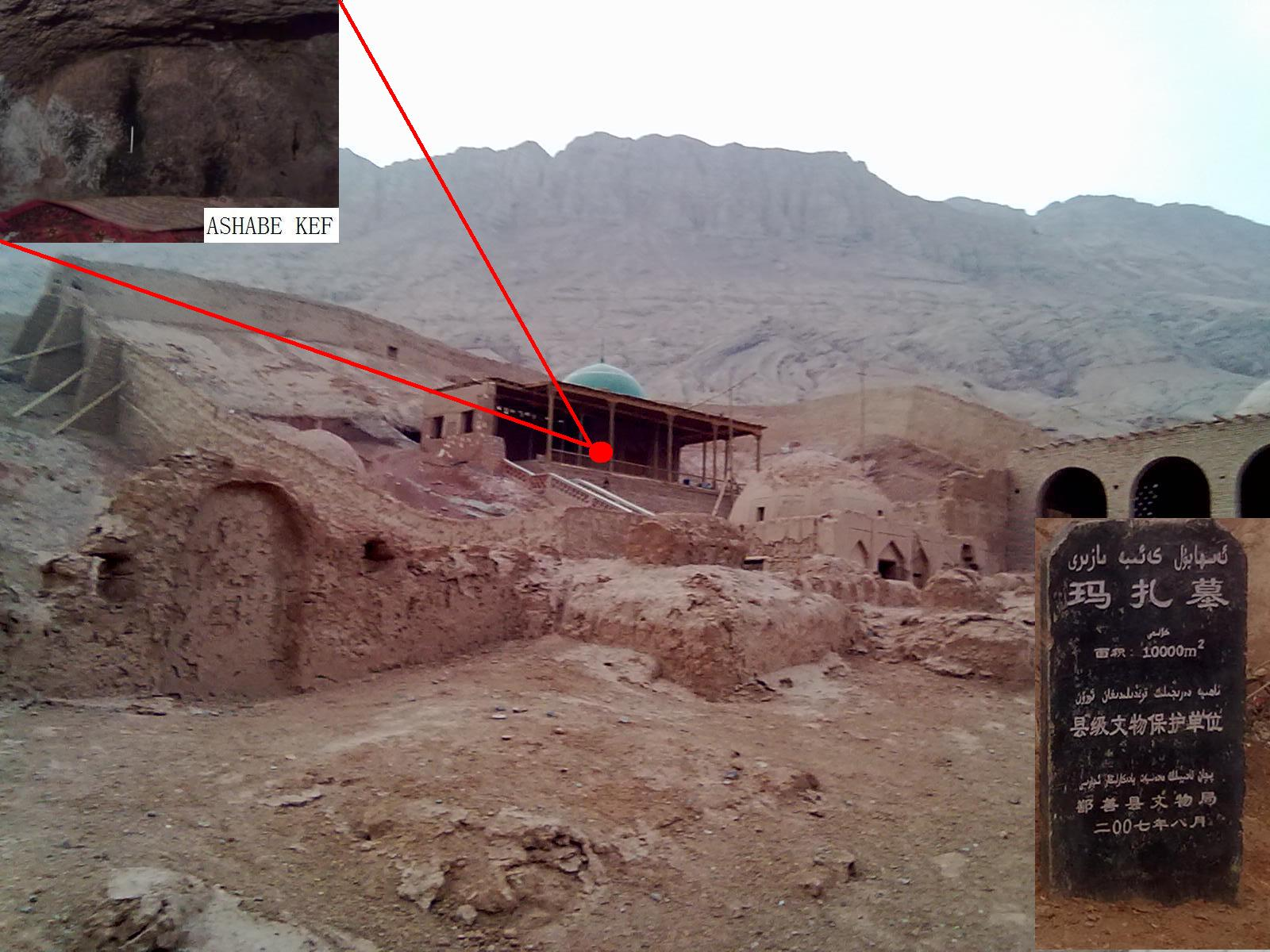 on left side of the picture is cave itself , Surroundings of the cave of seven sleepers seen as background